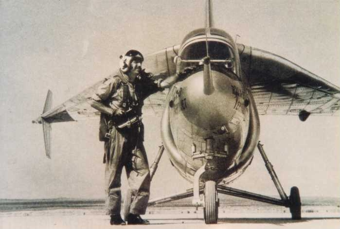 Ryan X-13 Vertijet with test pilot Pete Girard at Edwards AFB, on or about 10 Dec 1955 after first conventional flight of #41619.